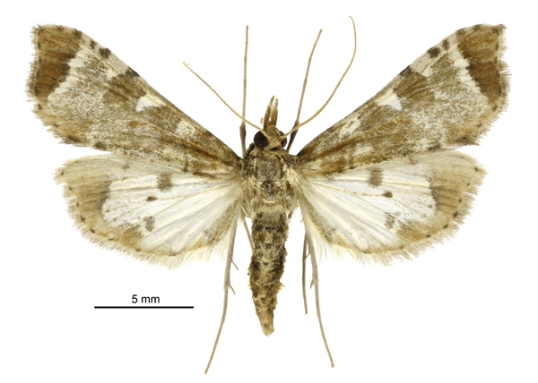 Female specimen of Leucinodes cordalis photographed by Birgit E. Rhode, Landcare Research New Zealand Ltd.